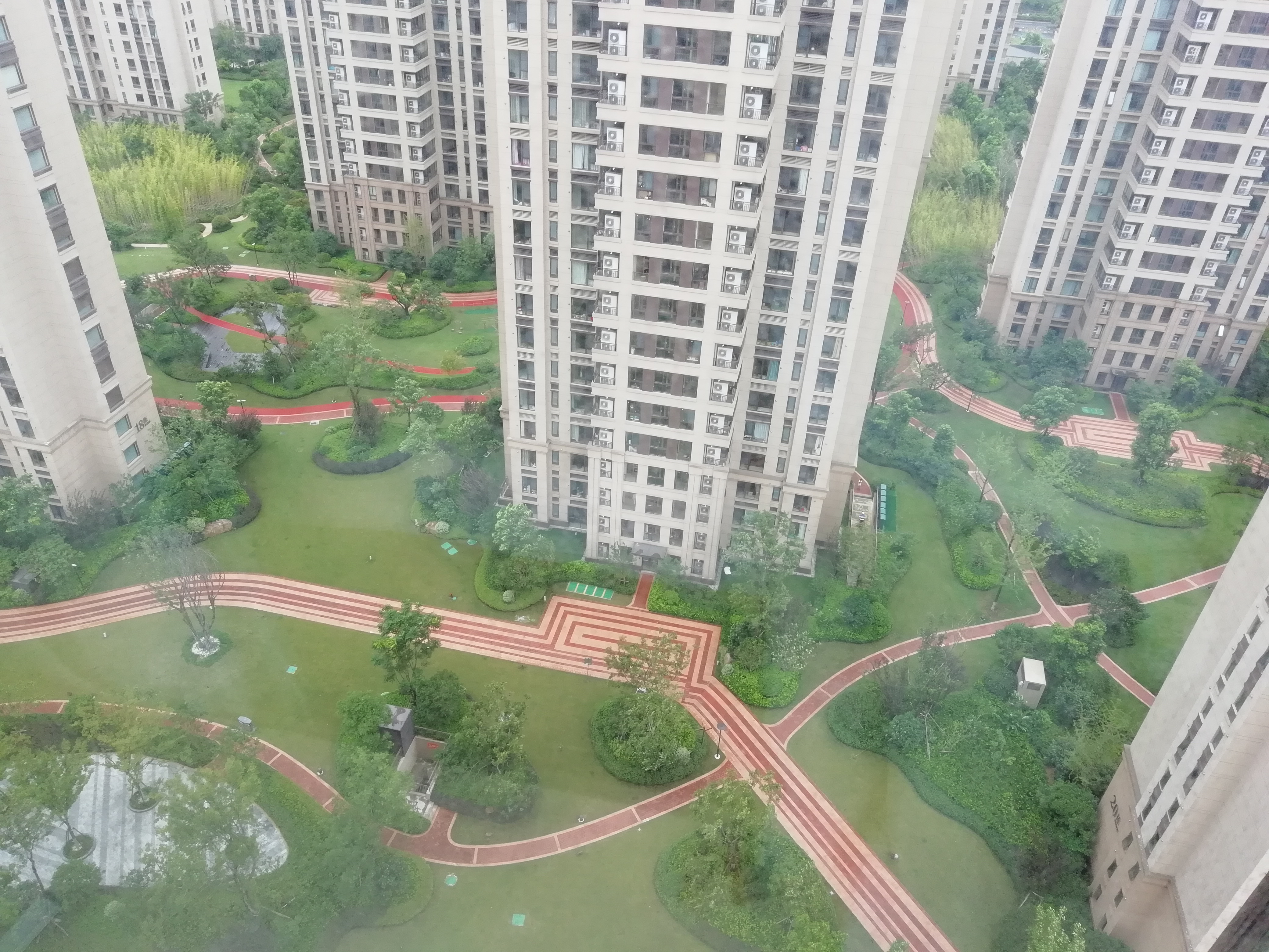 A view under the influence of Typhoon Jongdari in Suzhou, China on August 3, 2018.